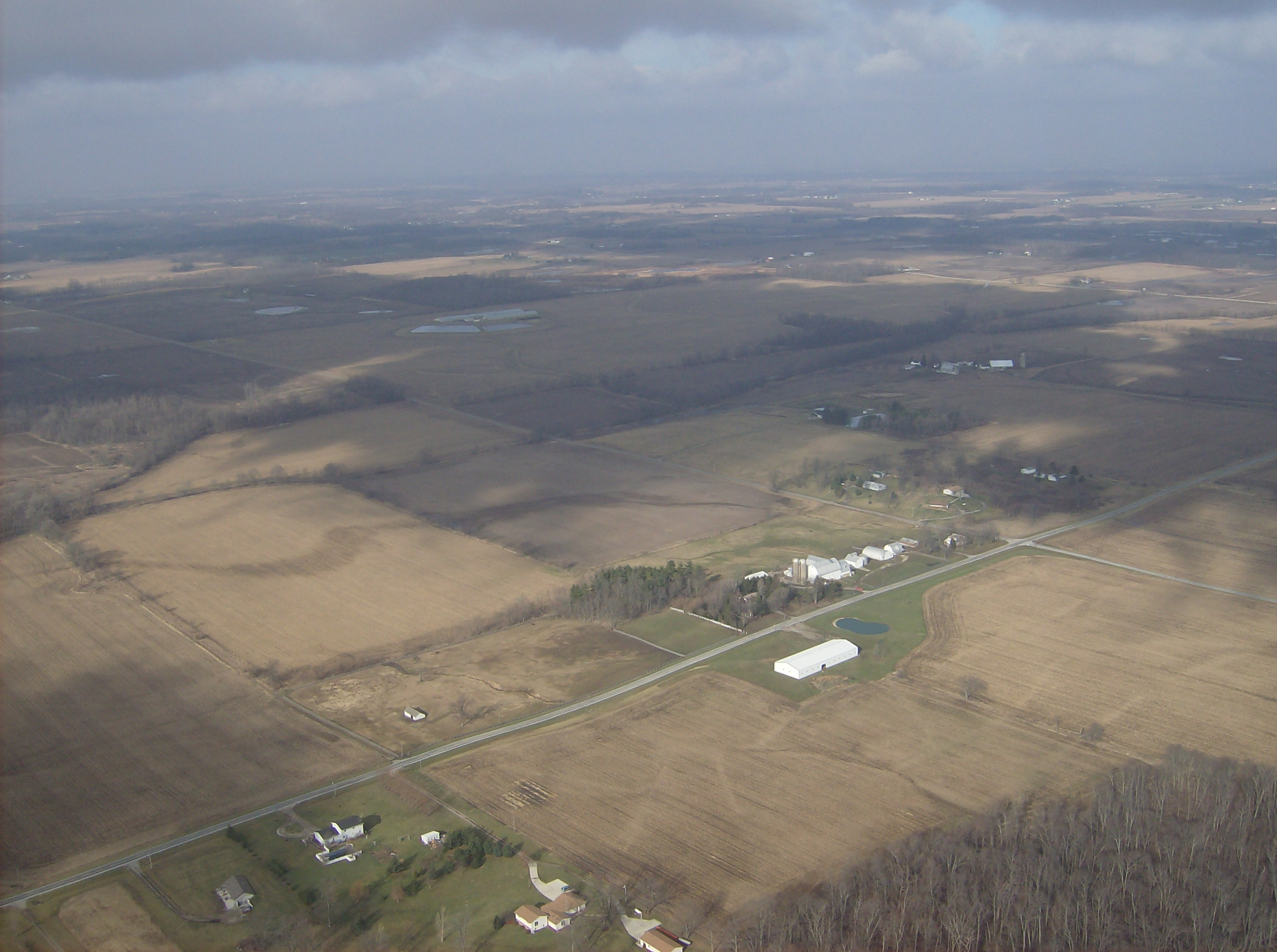 Fields in northwestern Salem Township, Champaign County, Ohio, United States, west of the village of West Liberty. Picture taken from a Diamond Eclipse light airplane at an altitude of 2,100 feet MSL and a bearing of approximately 294º.